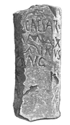 Roman Milestone (Reign of Maximinus Daia, AD 309-313), H 1.118 × Diam 0.356 m. Find date 1868, Find on the west side of Roman Corbridge (Corstopitum). Now in the Great North Museum: Hancock, in store (ramp S).